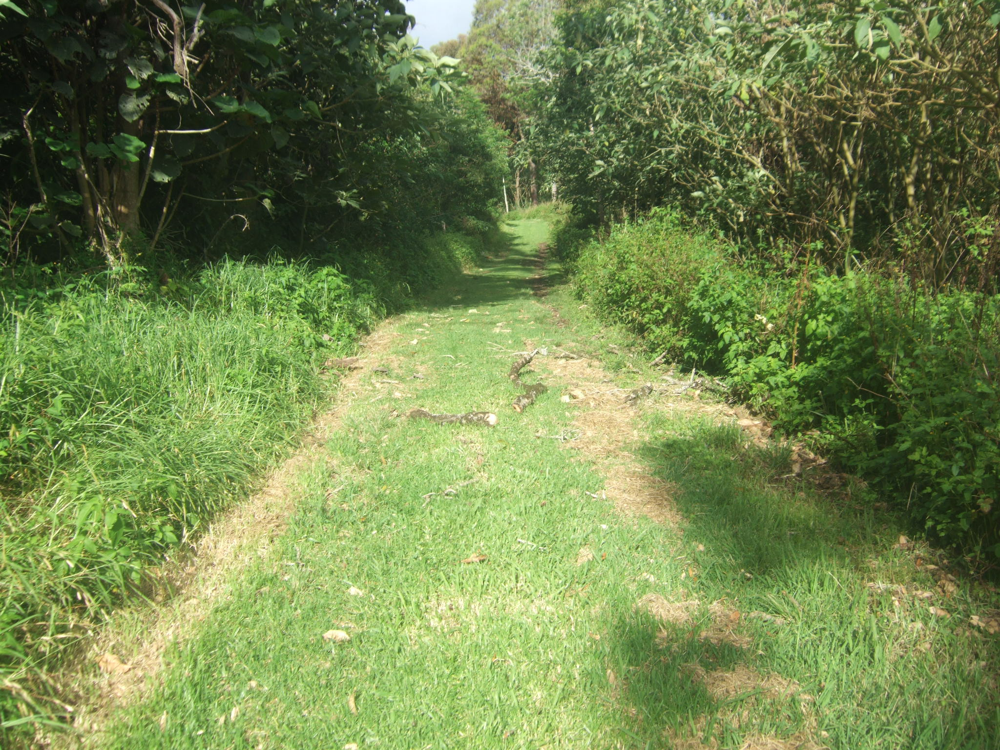 Scenery on the Gold Coast Hinterland Great Walk, between Binna Burra and Nerang Murwillumbah Road.